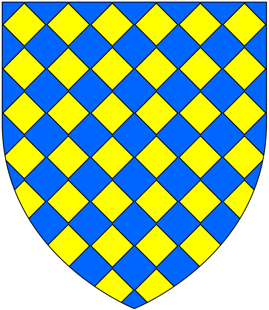 Arms of Warbelton of Hampshire: Lozengy or and azure. These arms were the subject of the famous 1347 heraldry case of "Warbelton v Gorges"